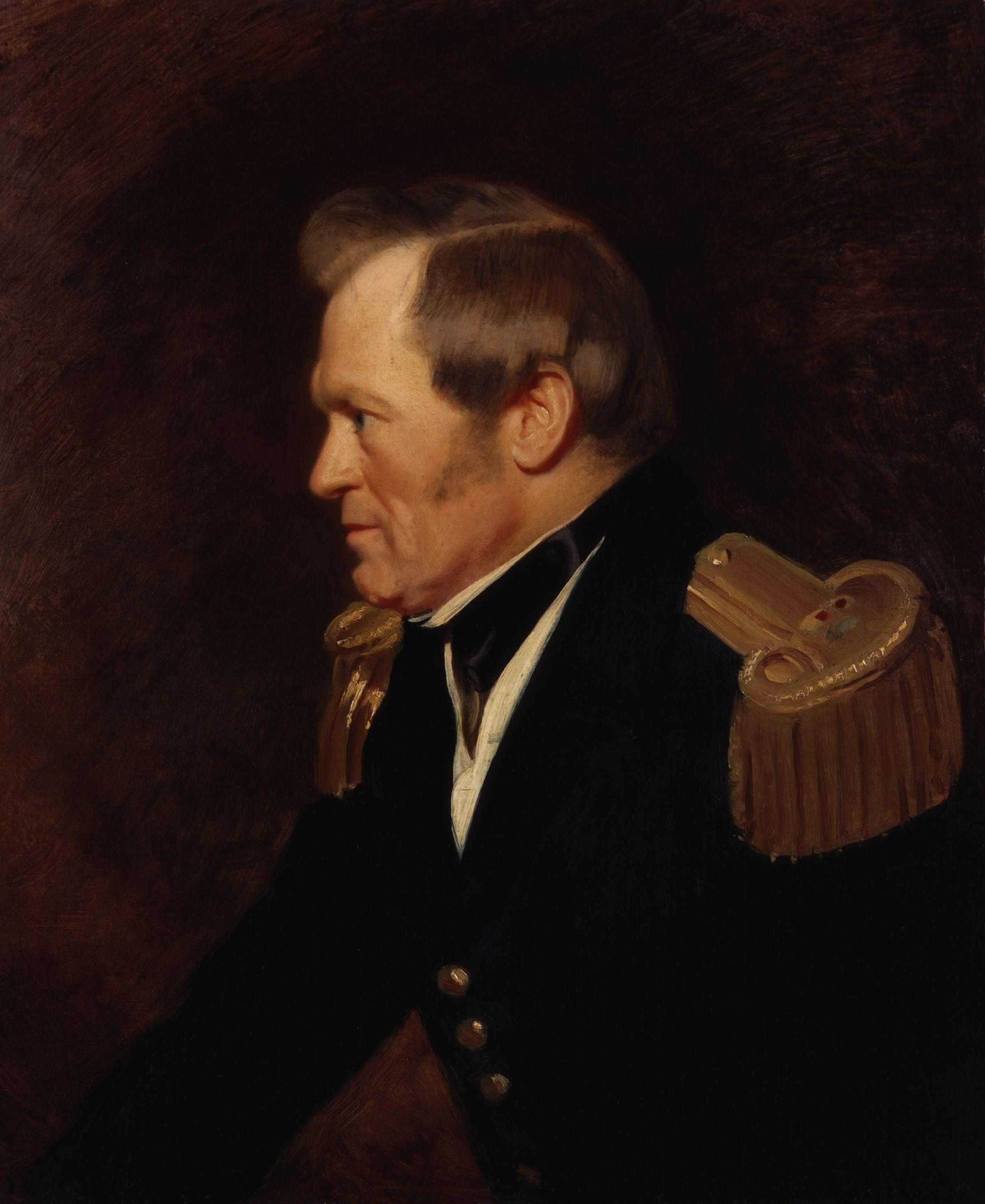 Sir John Richardson, by Stephen Pearce (died 1904). All images in this batch have been confirmed as author died before 1939 according to the official death date listed by the NPG.